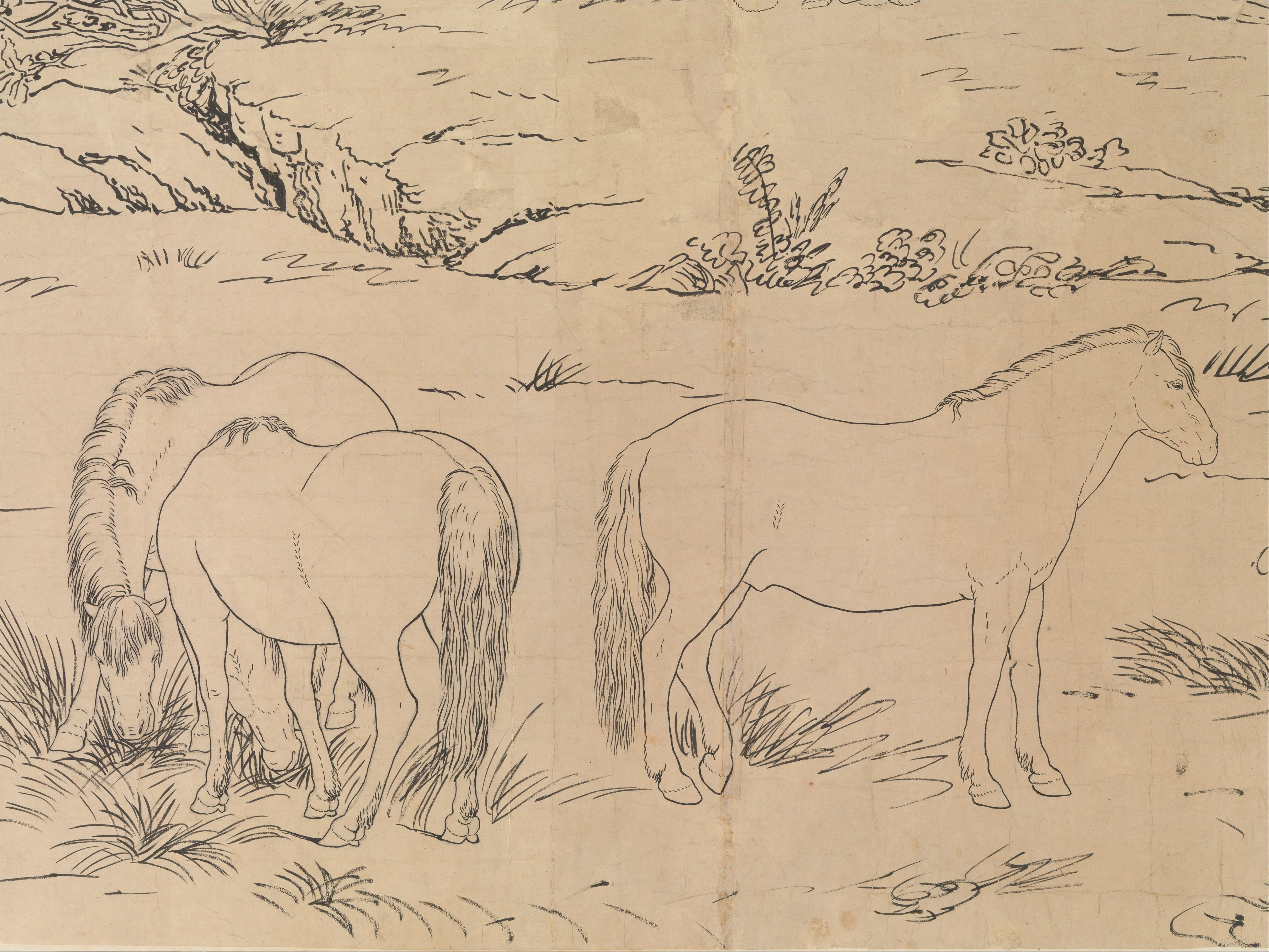 China; Handscroll; Paintings